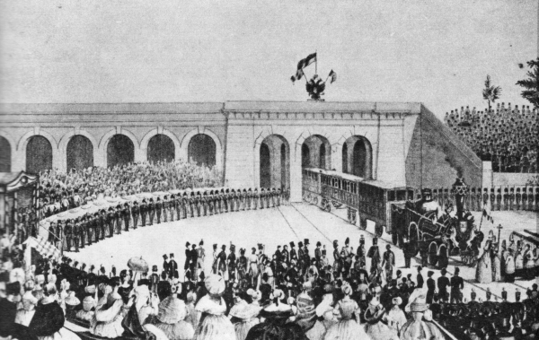 Arrival of the first train from Vienna to Prague